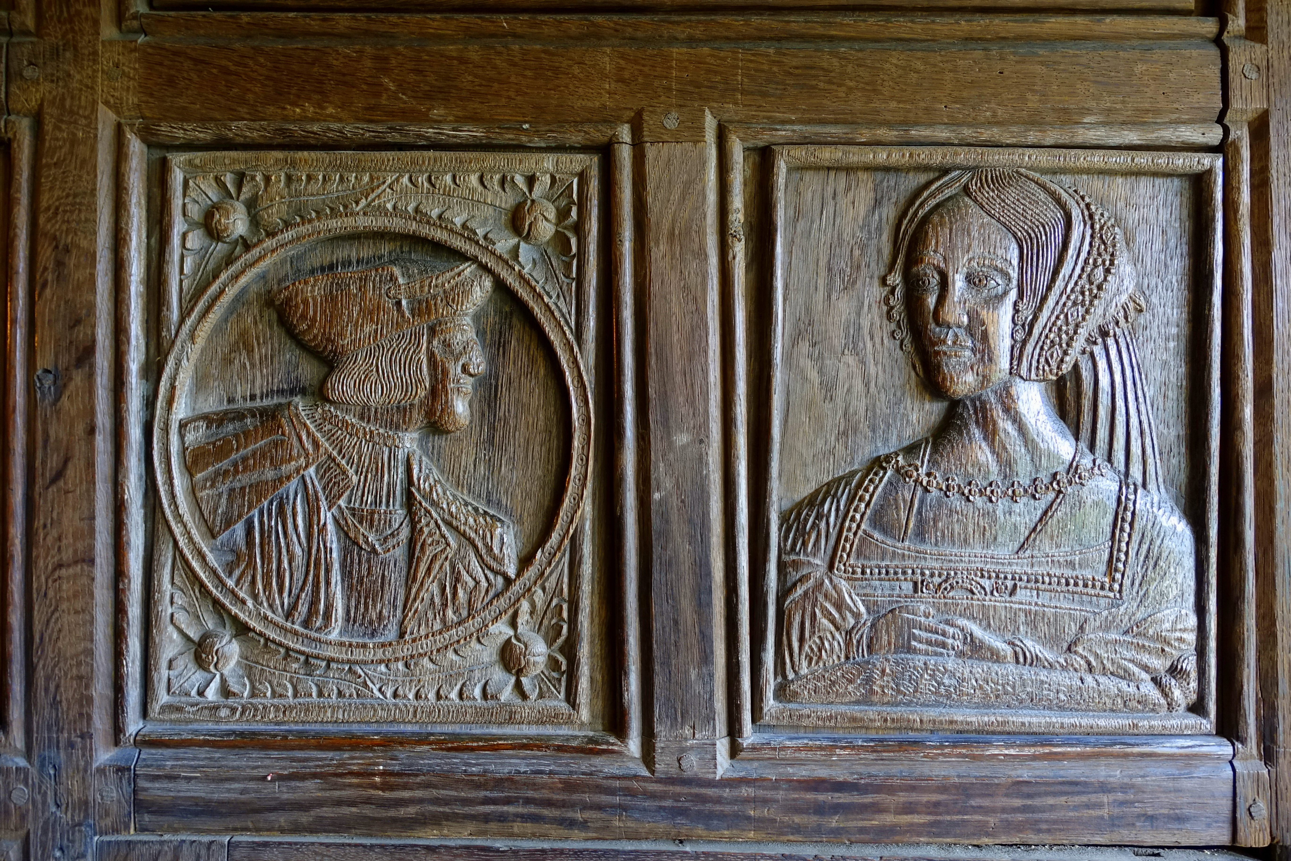 Parlour or Dining Room, Haddon Hall - Bakewell, Derbyshire, England. The room was created circa 1500 by Henry Vernon, and panelled in 1545 with the Boar's Head Crest and armourial shields of generations of the Vernon family. Plaster ceiling has decorations of the Talbot Dog and Tudor Rose. These heads are believed to represent King Henry VII and his wife Elizabeth of York.